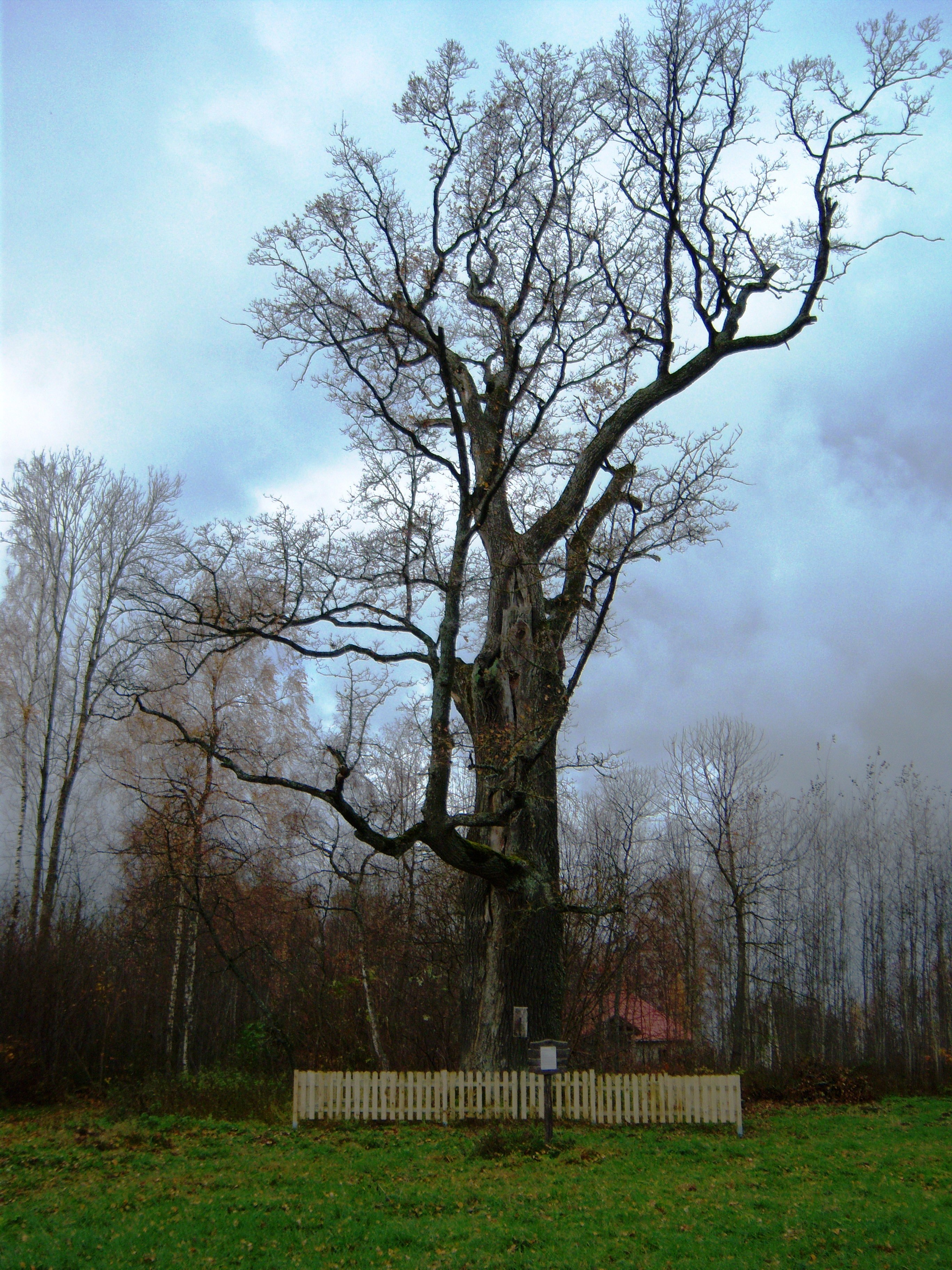 Oak in Buivėnai, Kupiškis District, Lithuania